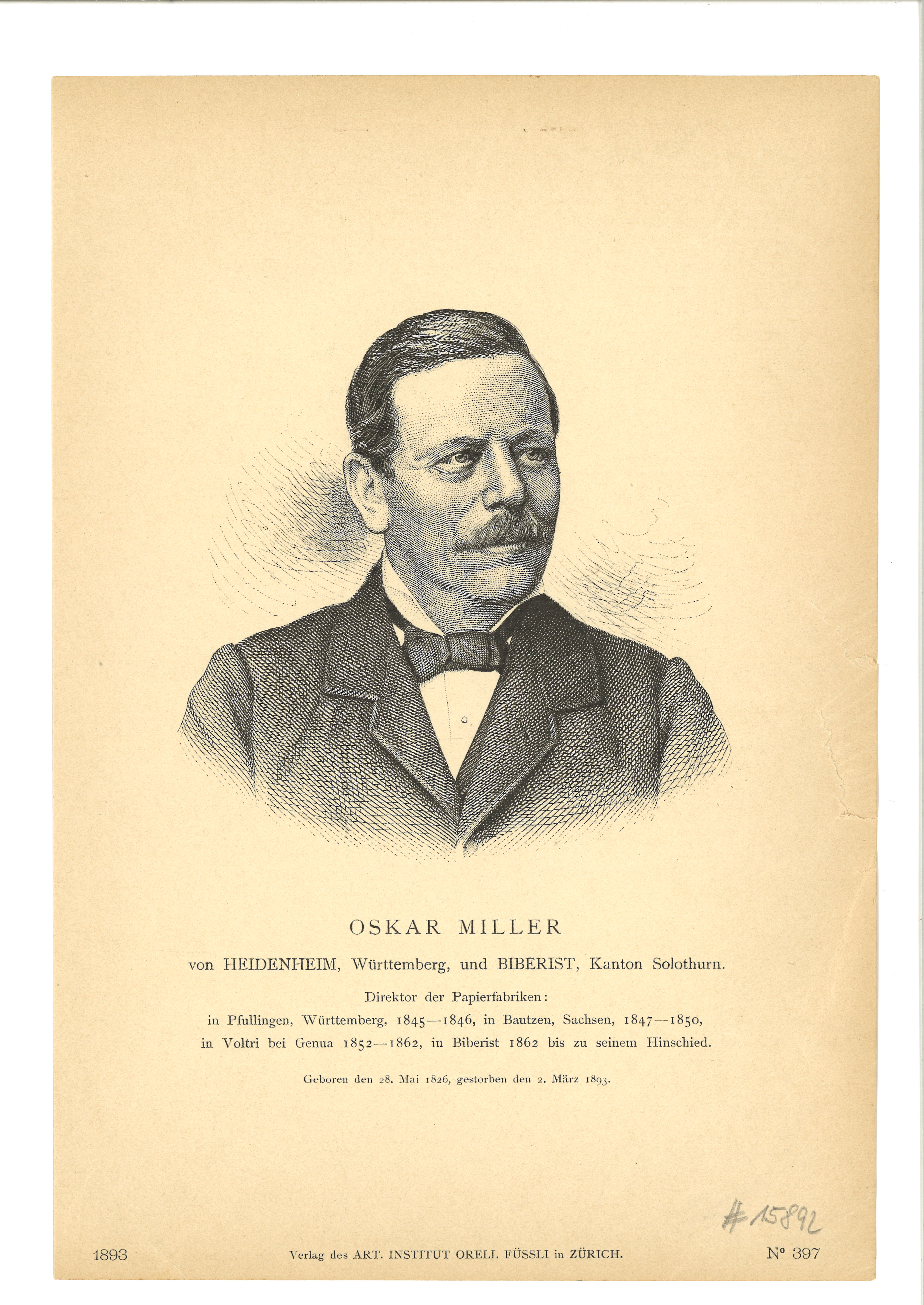 Oskar Miller (*1826 - + 1893), Paperengineer, Solothurn, Switzerland